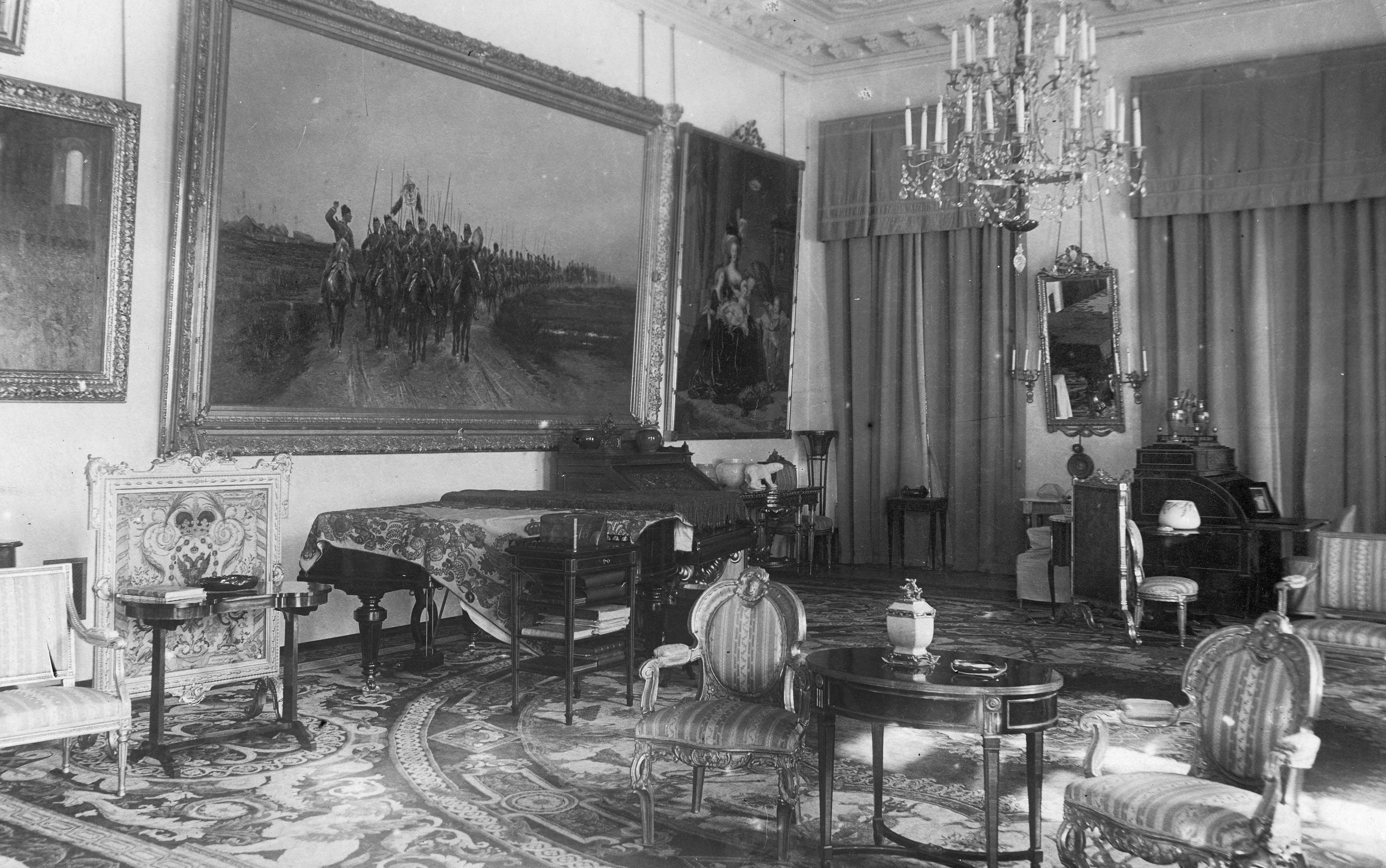 Alexander Palace - Formal Reception Original description: The Empress's drawing room, the Alexander Palace.